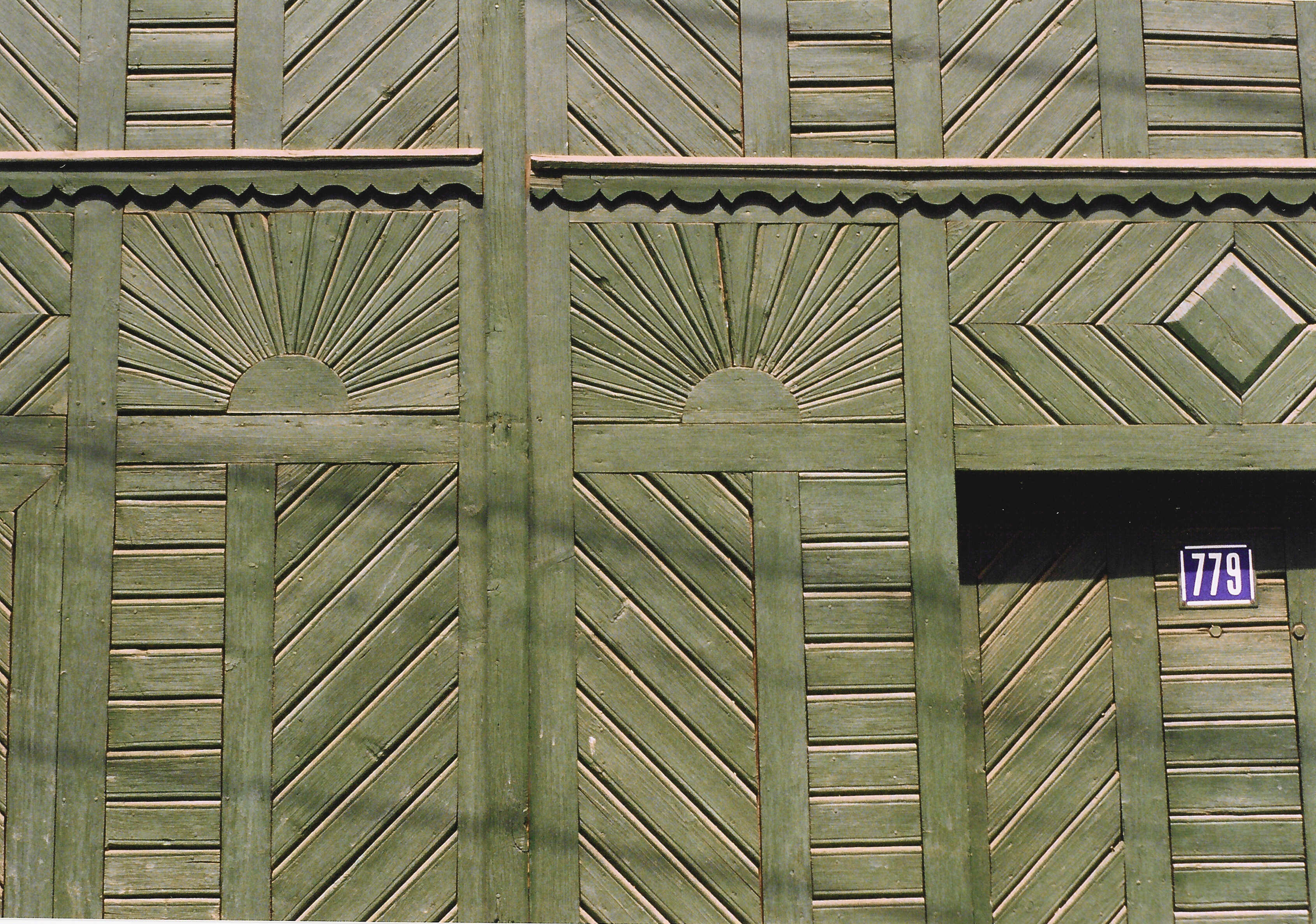 A yard gate typical of Răşinari, Sibiu County, Romania. Many of the homes in town have large yards, but are completely walled off from the streets with gates like this. While the whole gate can be opened, more commonly one goes through just the door.